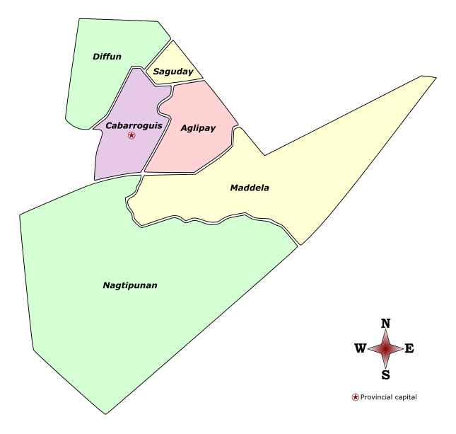 Labelled colored map of the province of Quirino, showing its component municipalities.